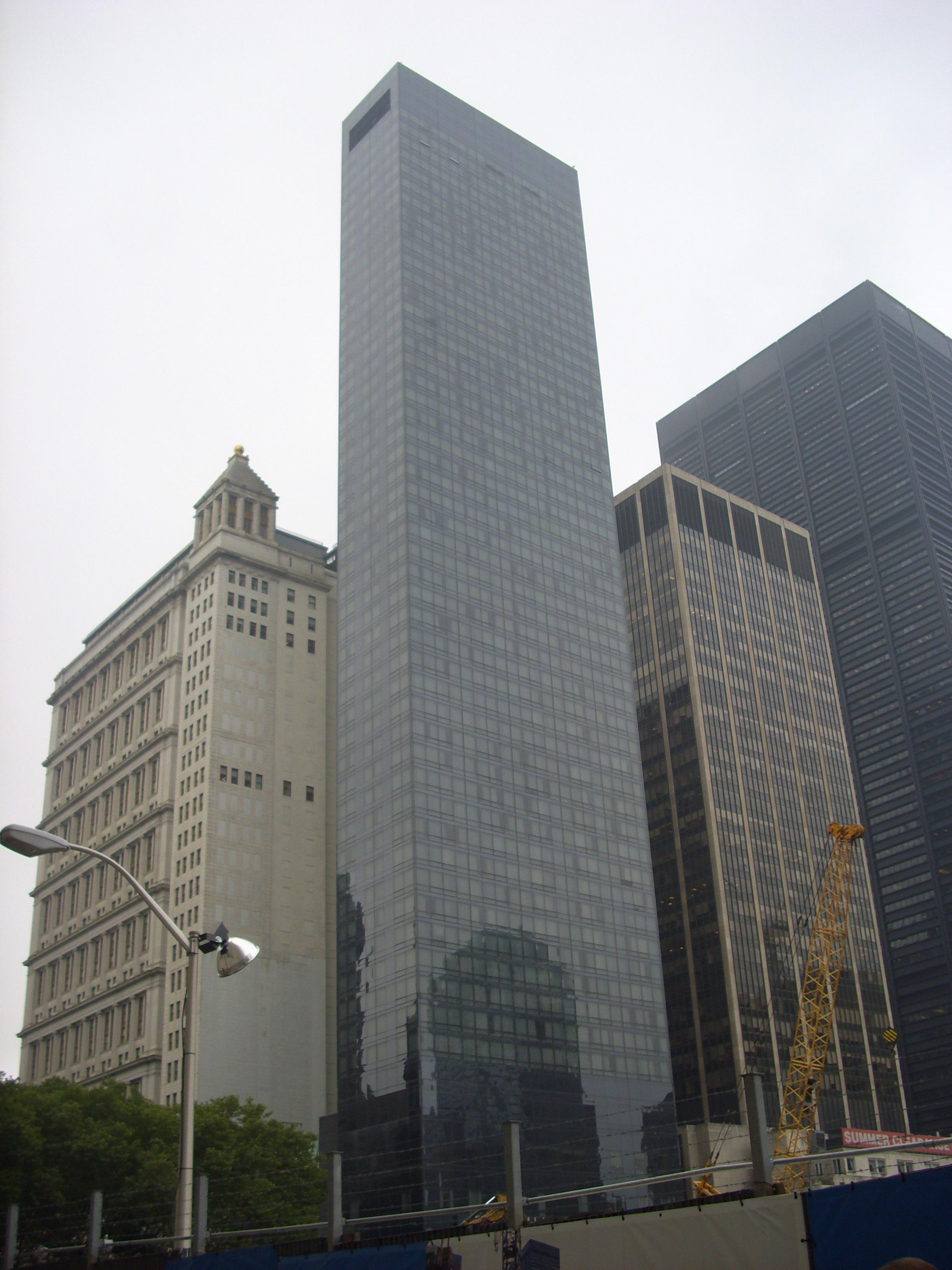 The Millennium Hilton hotel in Downtown Manhattan, overlooking Ground Zero.